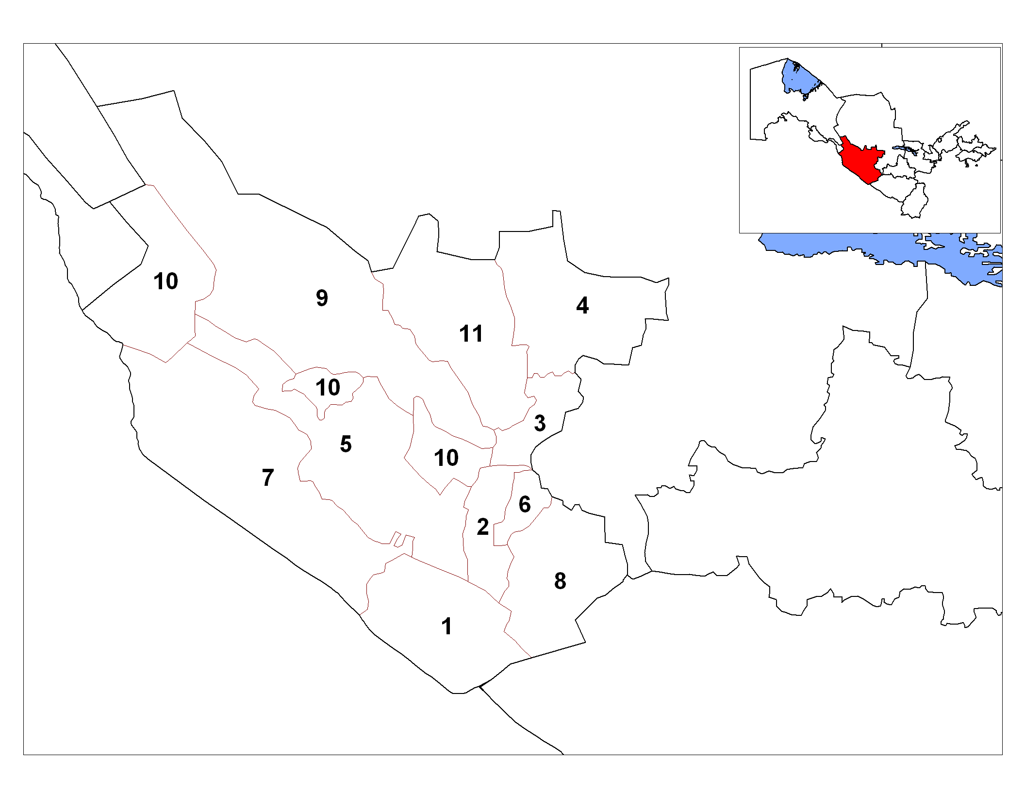 Map of districts of Buxoro Province in Uzbekistan with numbers.